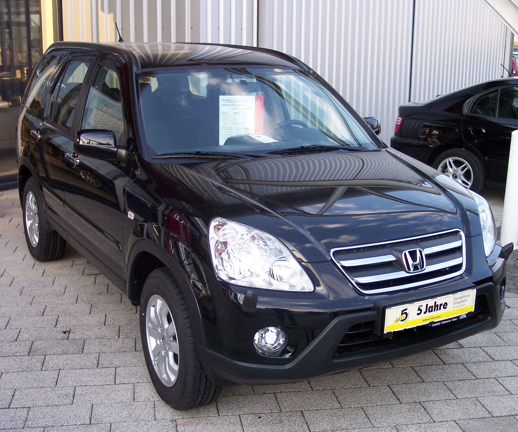 Honda CR-V